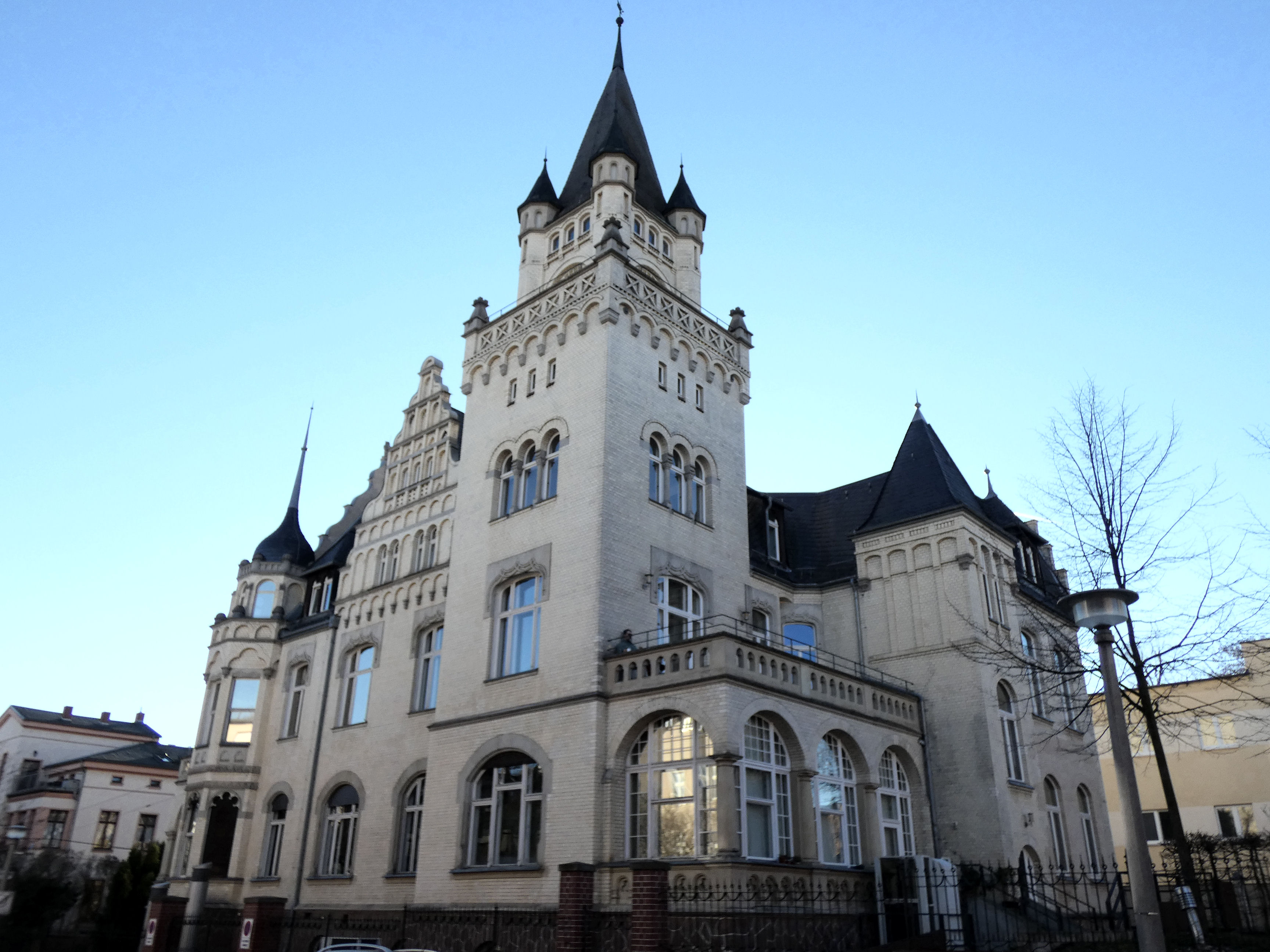 Villa Kaehne, No. 15 at Mühlweg in Halle/Saale (Saxony-Anhalt), now Oriental Institute of the University of Halle